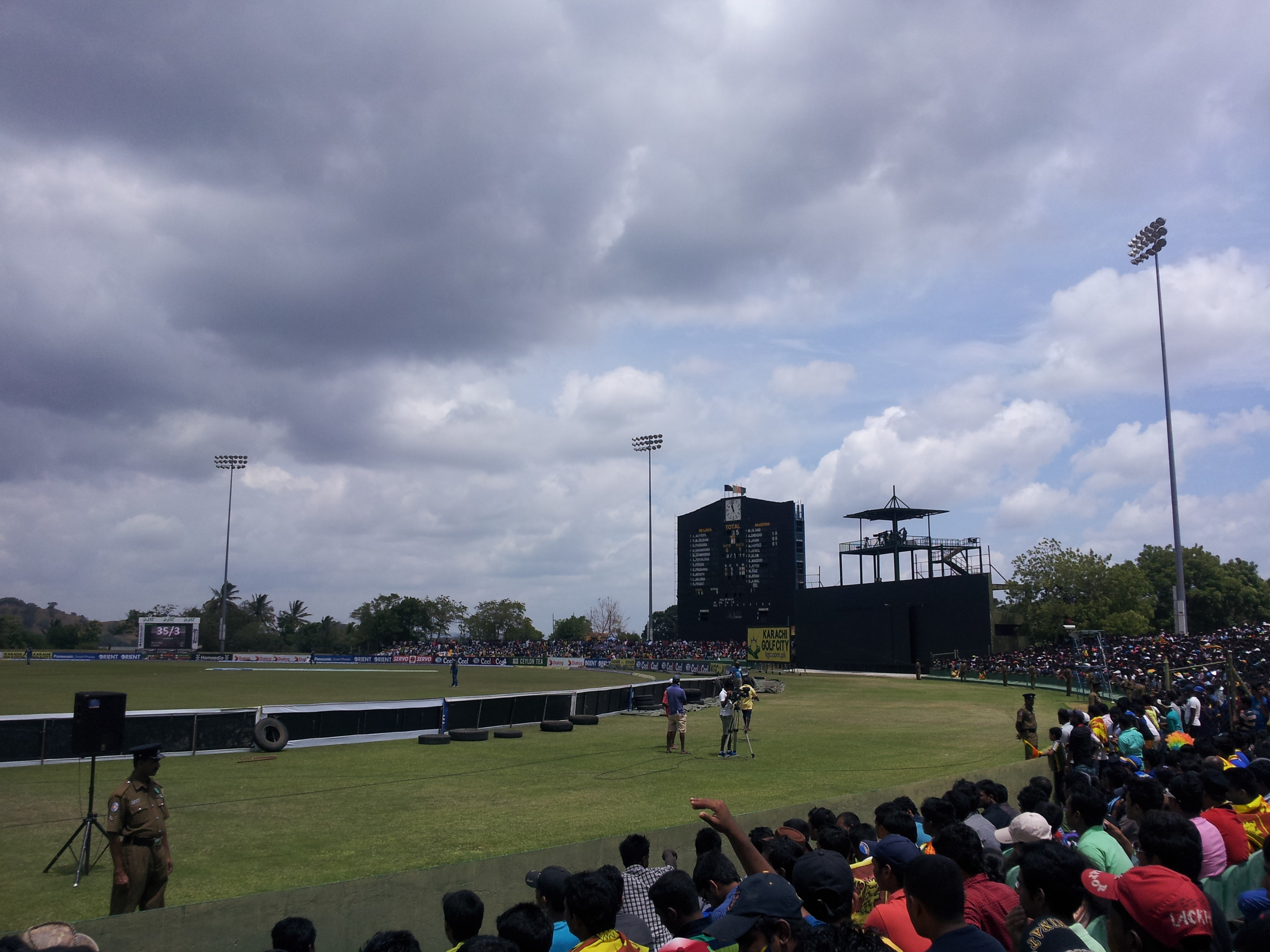 Rangiri Dambulla International Stadium scoreboard end